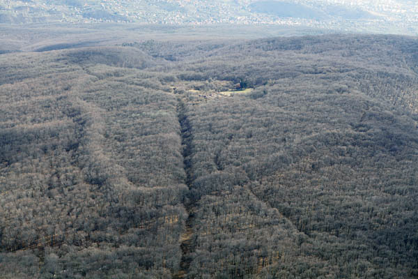 Pécs, Jakab mountain, Hungary, aerial photography